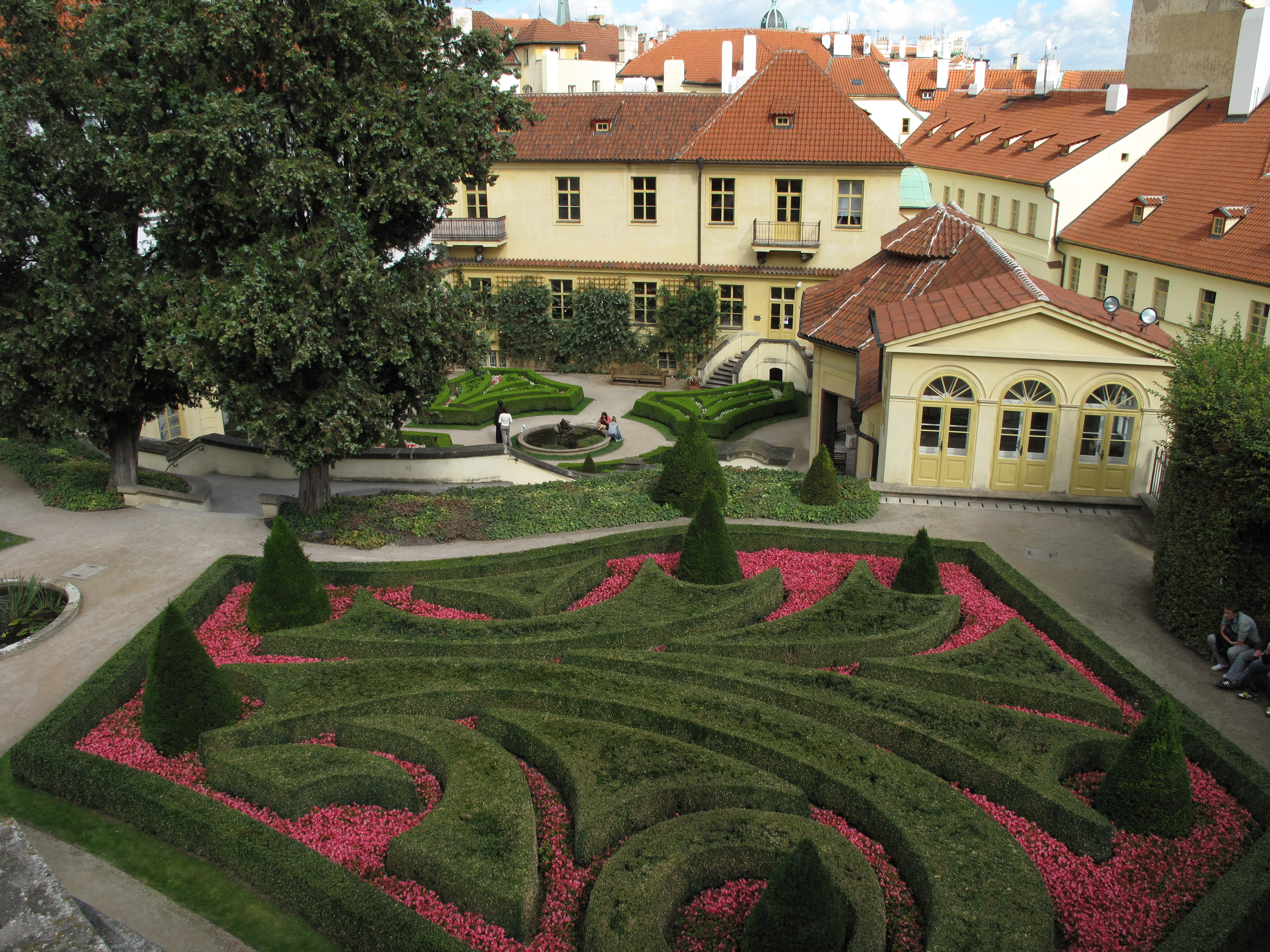 Docoration of the second level in Vrtba garden with former atelier of Mikoláš Aleš, Prague, Lesser Quarter, Czech Republic.